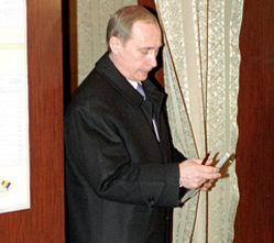 MOSCOW. Vladimir Putin at polling station 2026, Gagarinsky District.